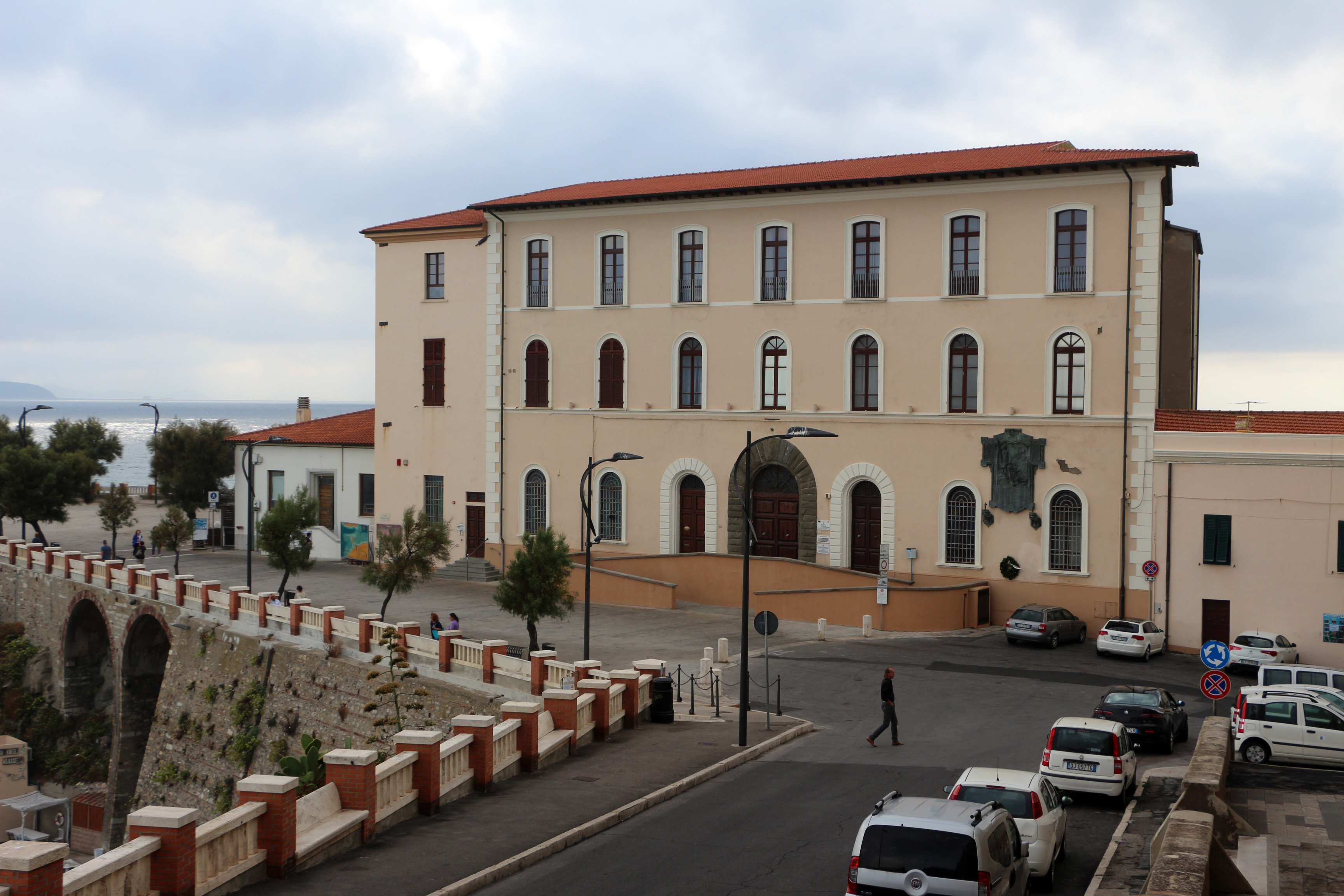 Piombino